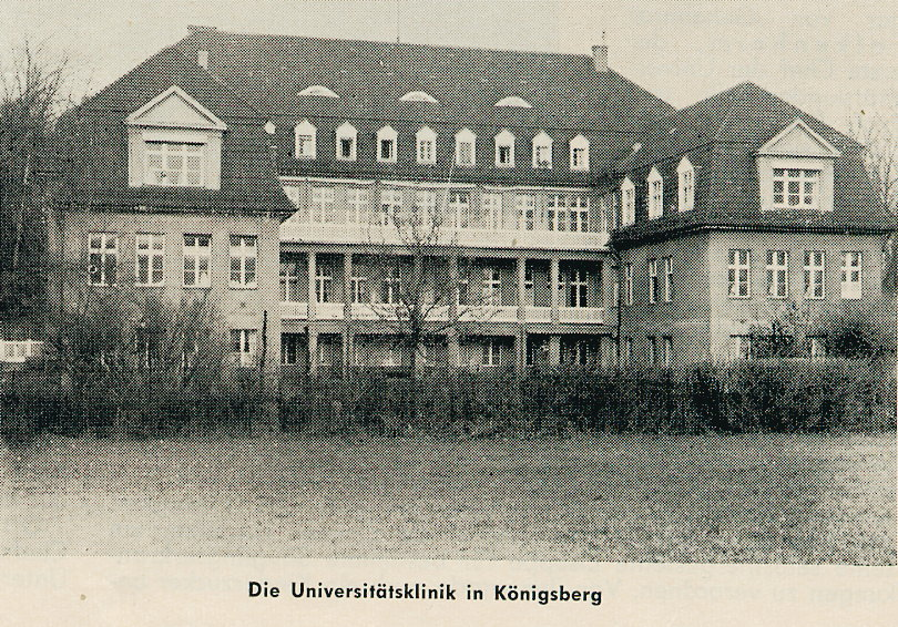 The clinic of Pediatrics at the University of Königsberg/ Prussia existed as part of the University from 1921 until 1945. The founder and builder of this clinic war Hugo Falkenheim - see wikipedia.de